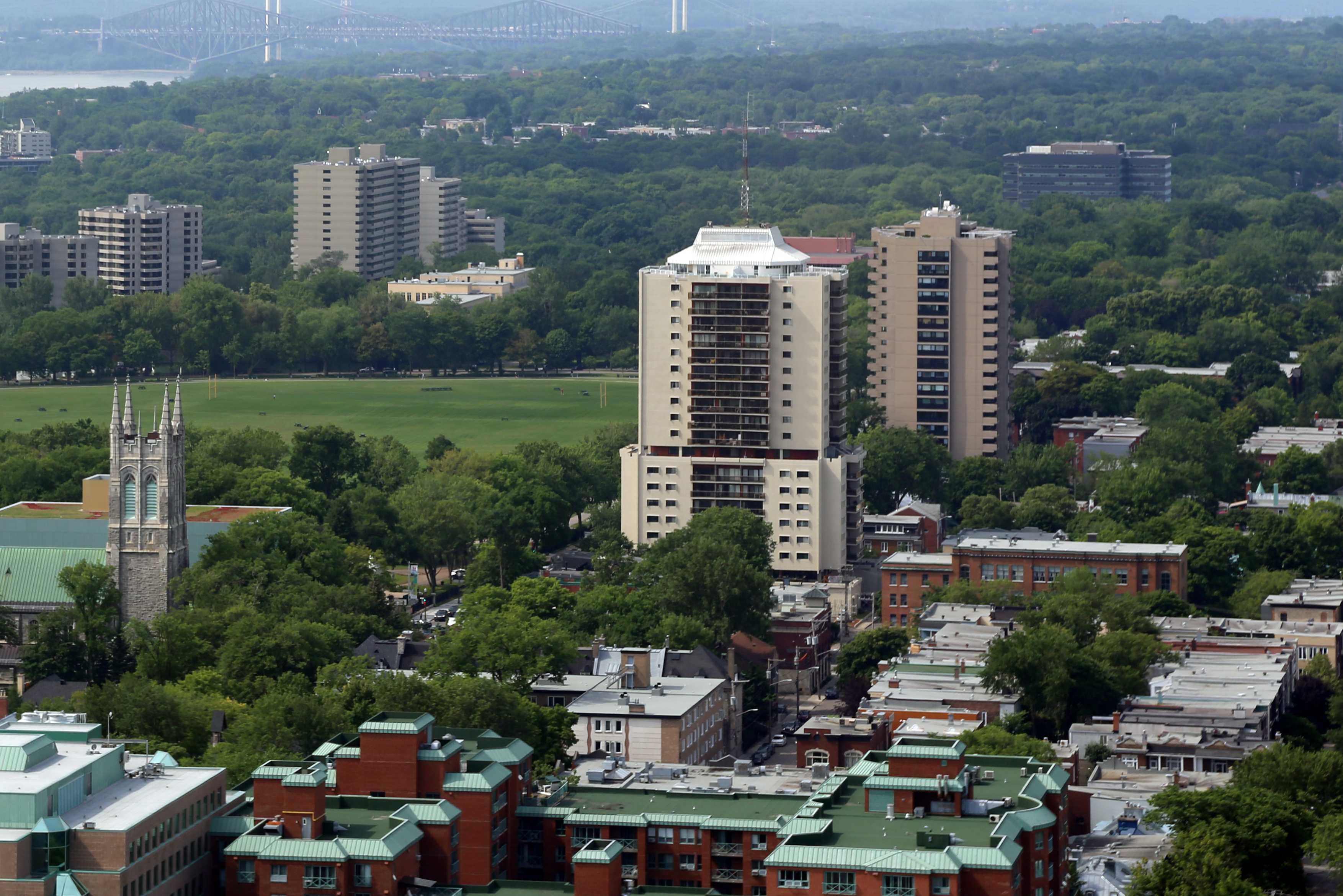 Québec City.